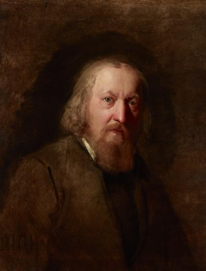 Self-portrait